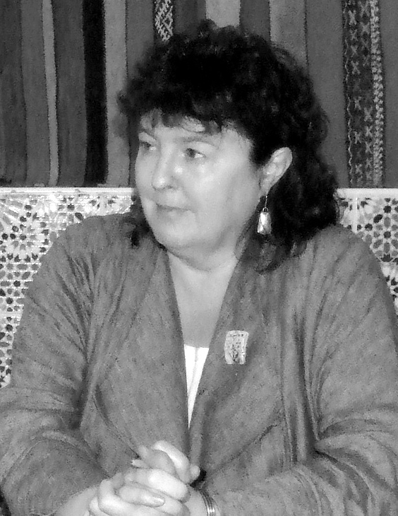 Carol Ann Duffy (cropped)